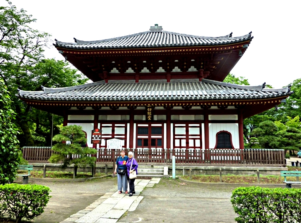 I took this photo on a trip to Japan in 2010